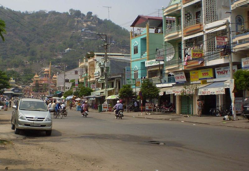 Mountain Sam, Chau Doc Town, An Giang Province, Southern Vietnam